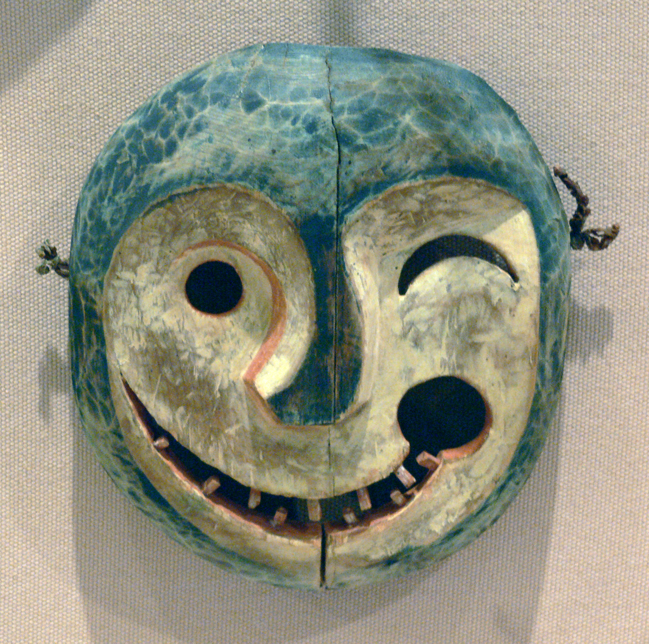 Mask depicting the face of a tunghak (keeper of the game), Yupik Eskimo, Alaska, Yukon River area, late 19th century, wood and paint Dallas Museum of Art, Dallas, Texas; git of Elizabeth H. Penn, object number 1982.82